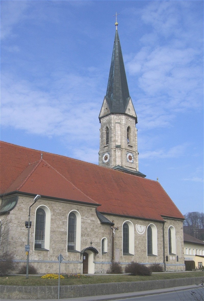 Aßling, view of St George's Parish Church from south-west (Kirchplatz).